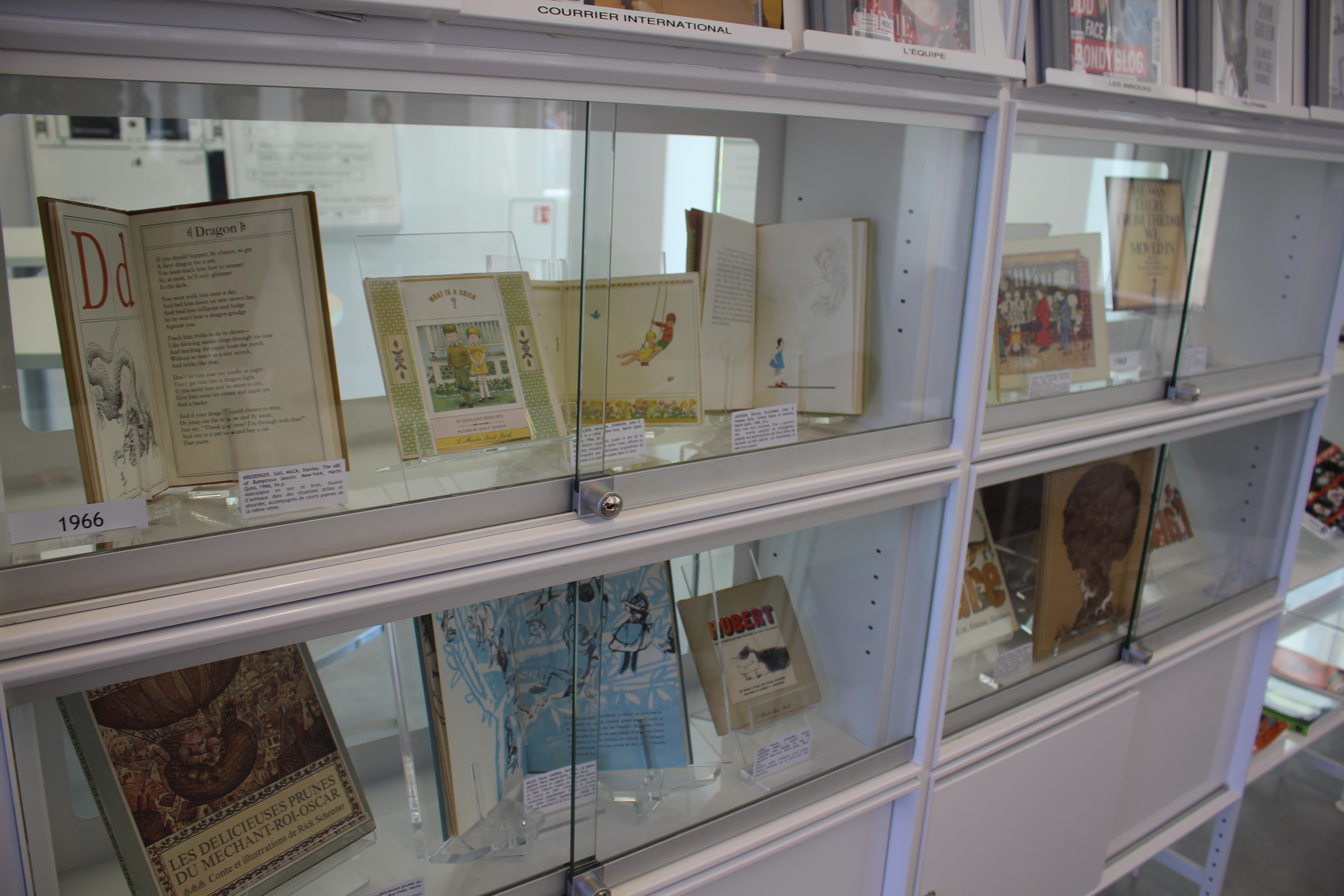 Françoise Sagan Library, 8 Rue Léon-Schwartzenberg, 75010 Paris, France.